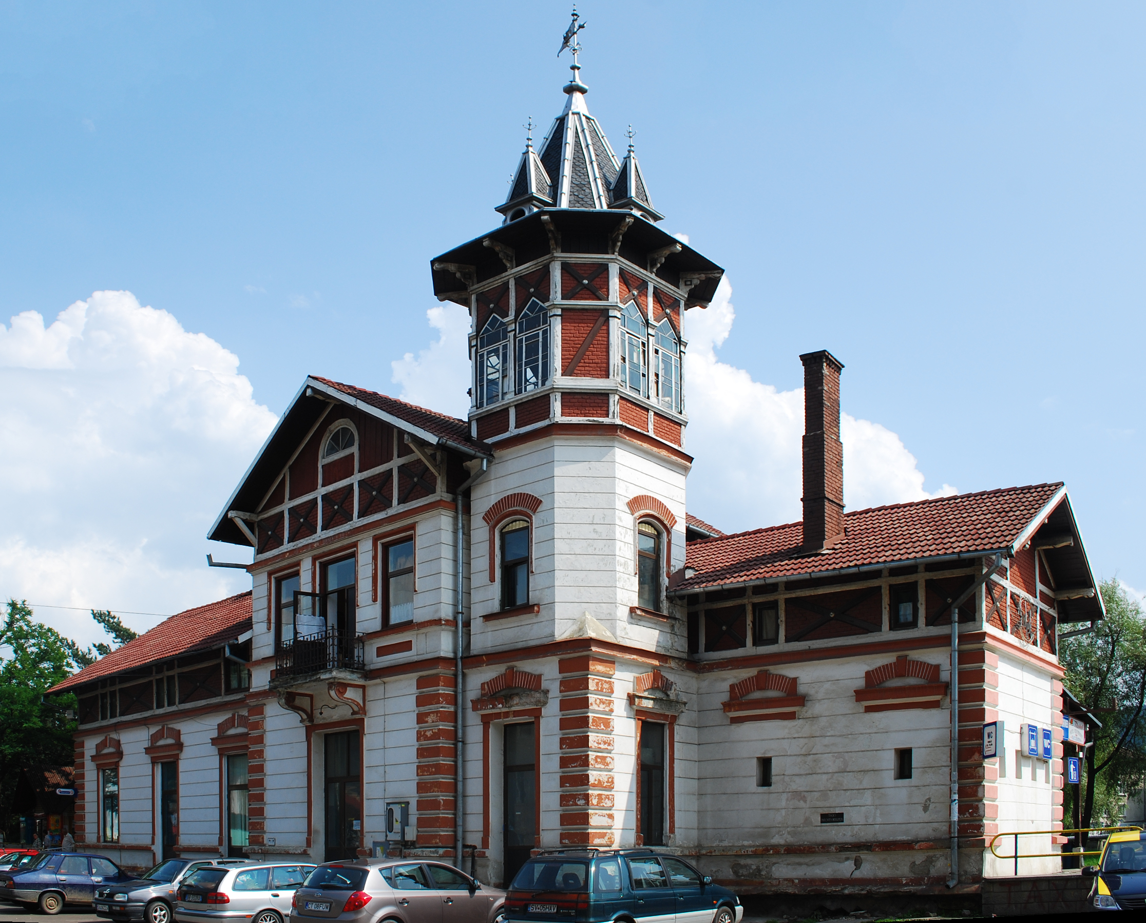 The Băi railway station in Vatra Dornei, Suceava County, Romania